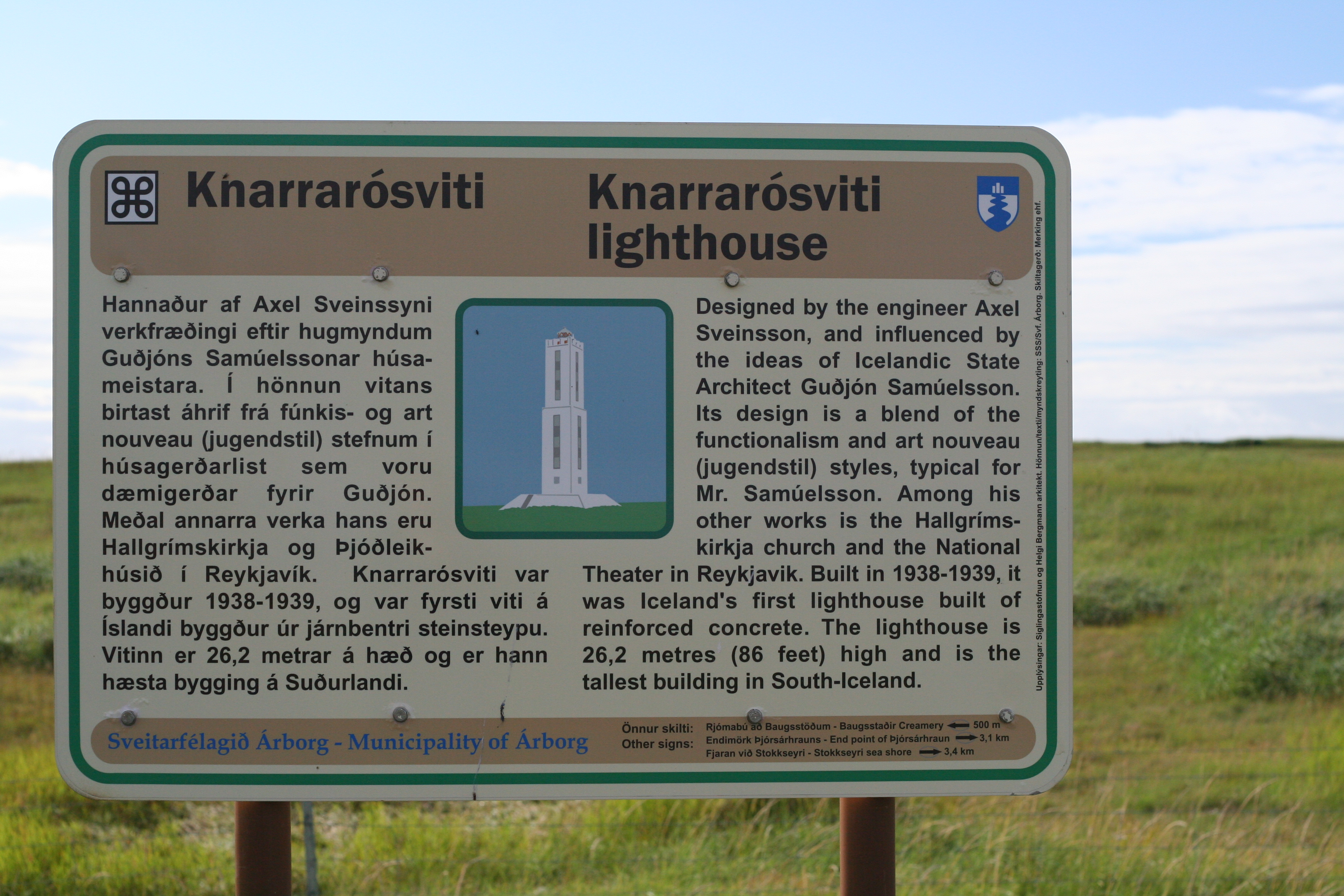 Knarraros lighthouse sign